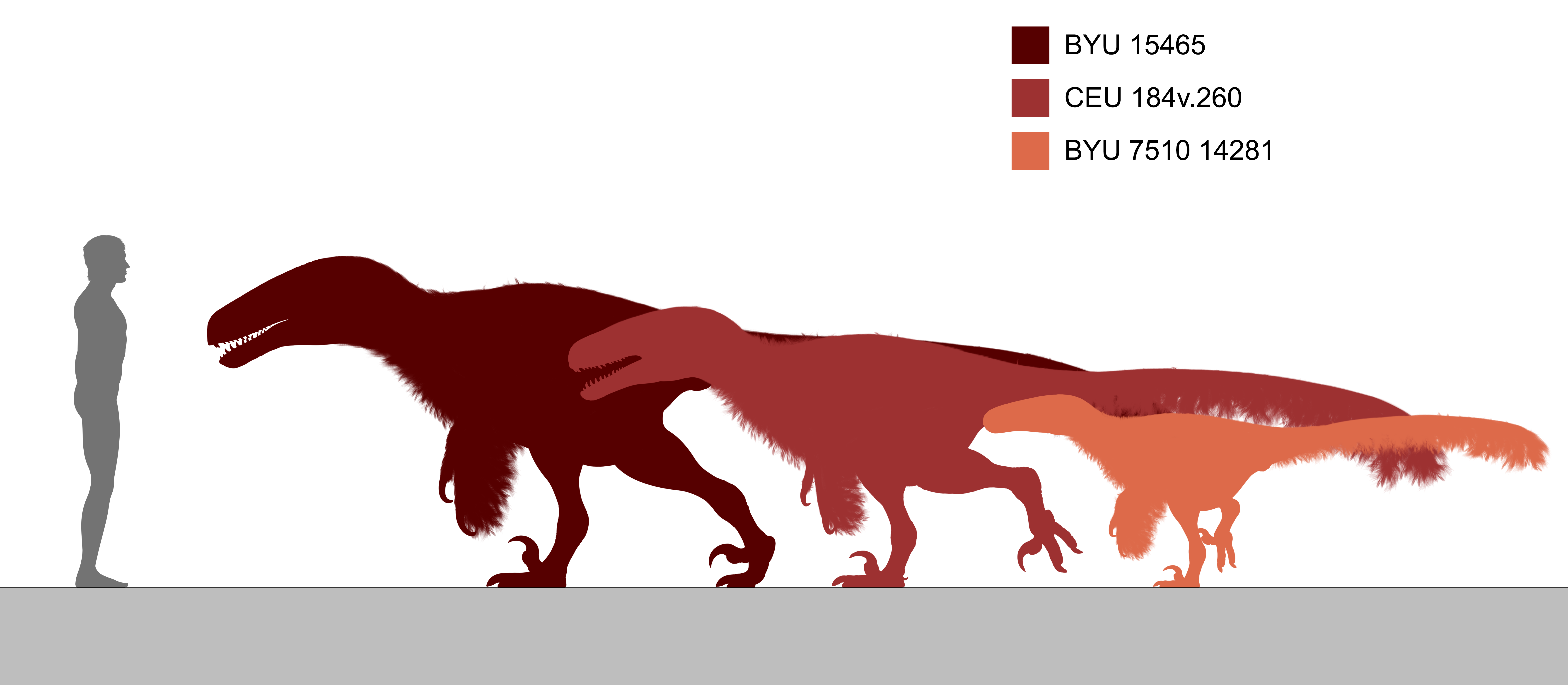 Maximun body size estimate for the gigantic dromaeosaurid Utahraptor: 7 meters long, compared to a 1.8 meter tall man.[1] Based on the specimen BYUVP 15465, with a total femoral length of 60 cm (600 mm)[2].